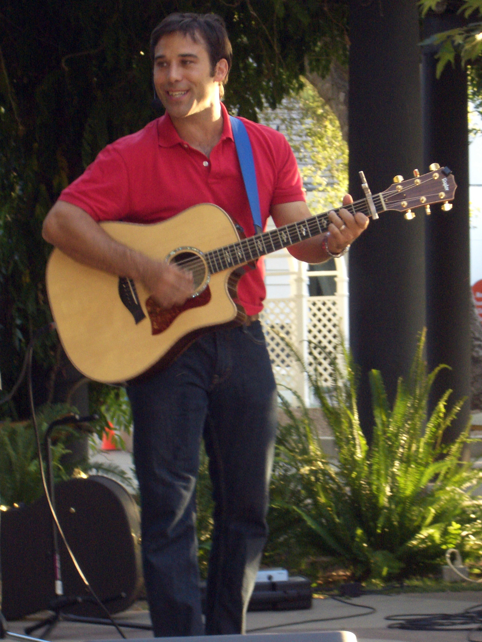 Steve Roslonek, American children's music artist, performing at the Kidspace Museum, Pasadena, California, USA